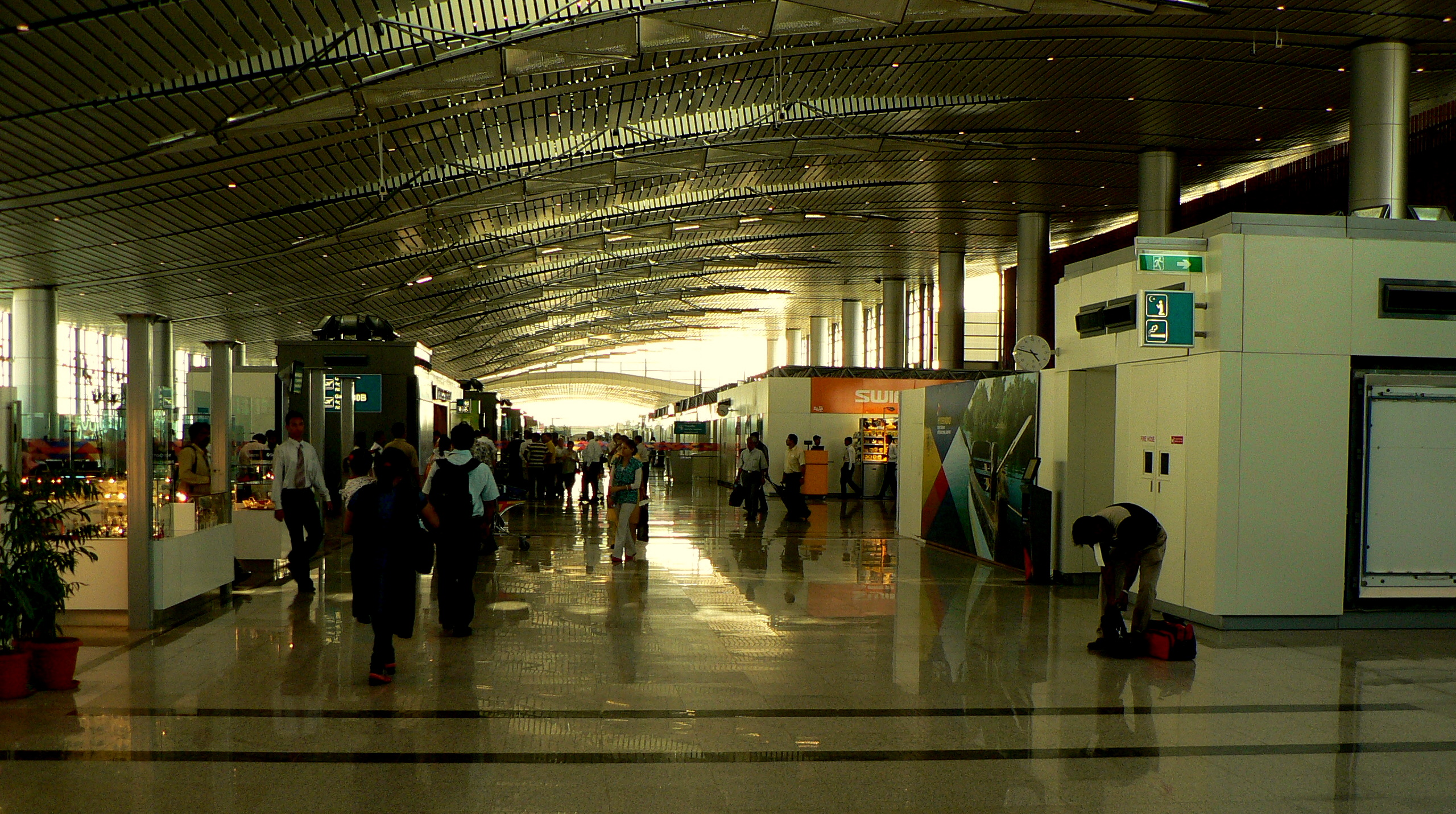 Passenger facilities in Hyderabad International airport Telangana / Andhra Pradesh